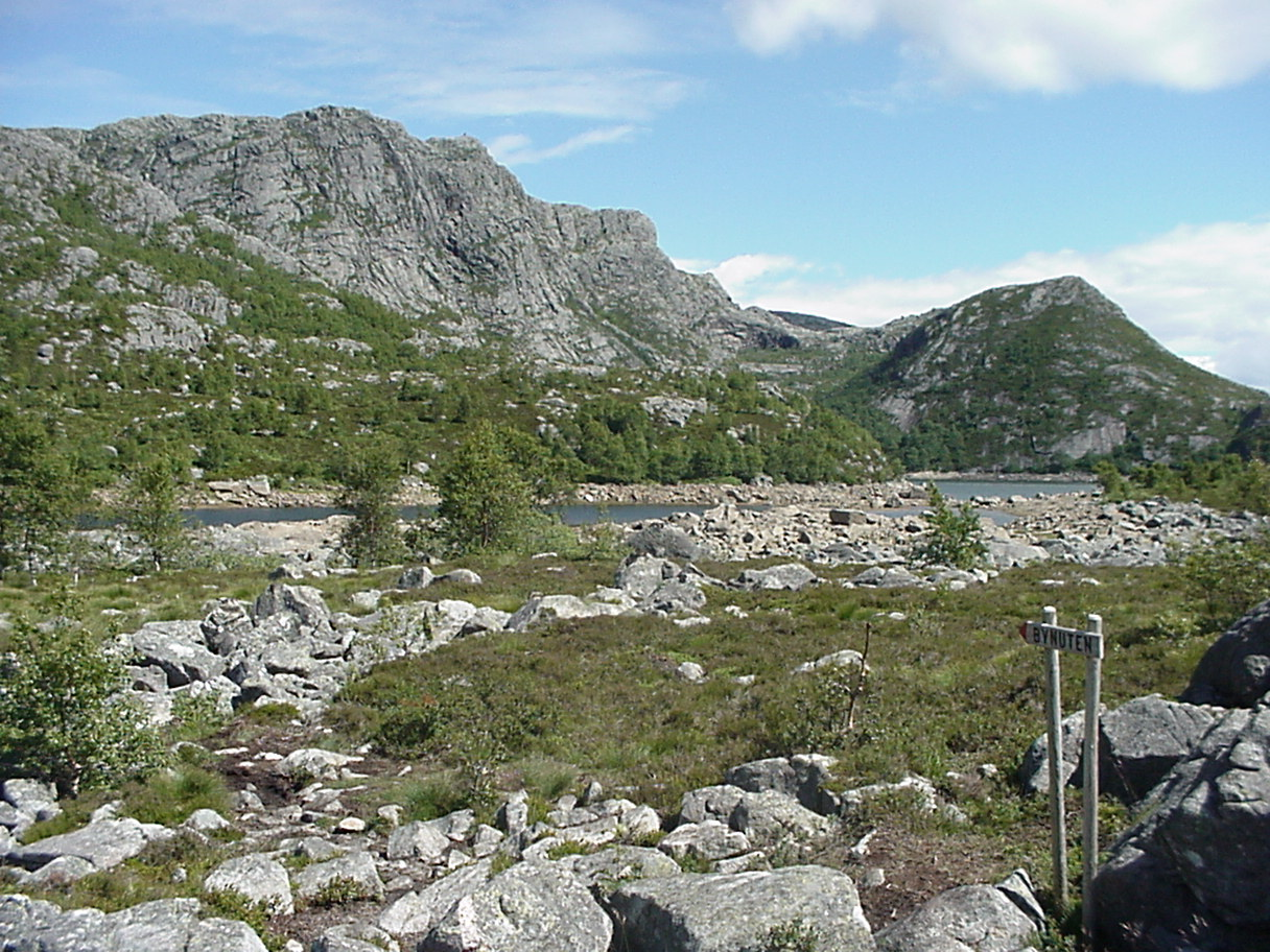 Bynuten (Rogaland, Norway), seen from lake Storatjørn